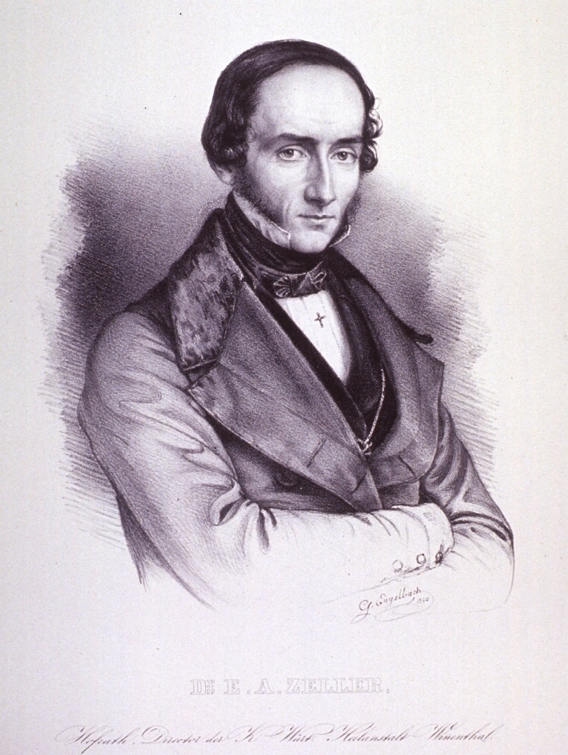 Ernst Albert von Zeller